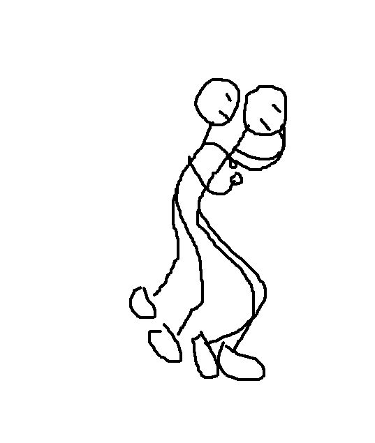 Sketch of how to sleep spoon.